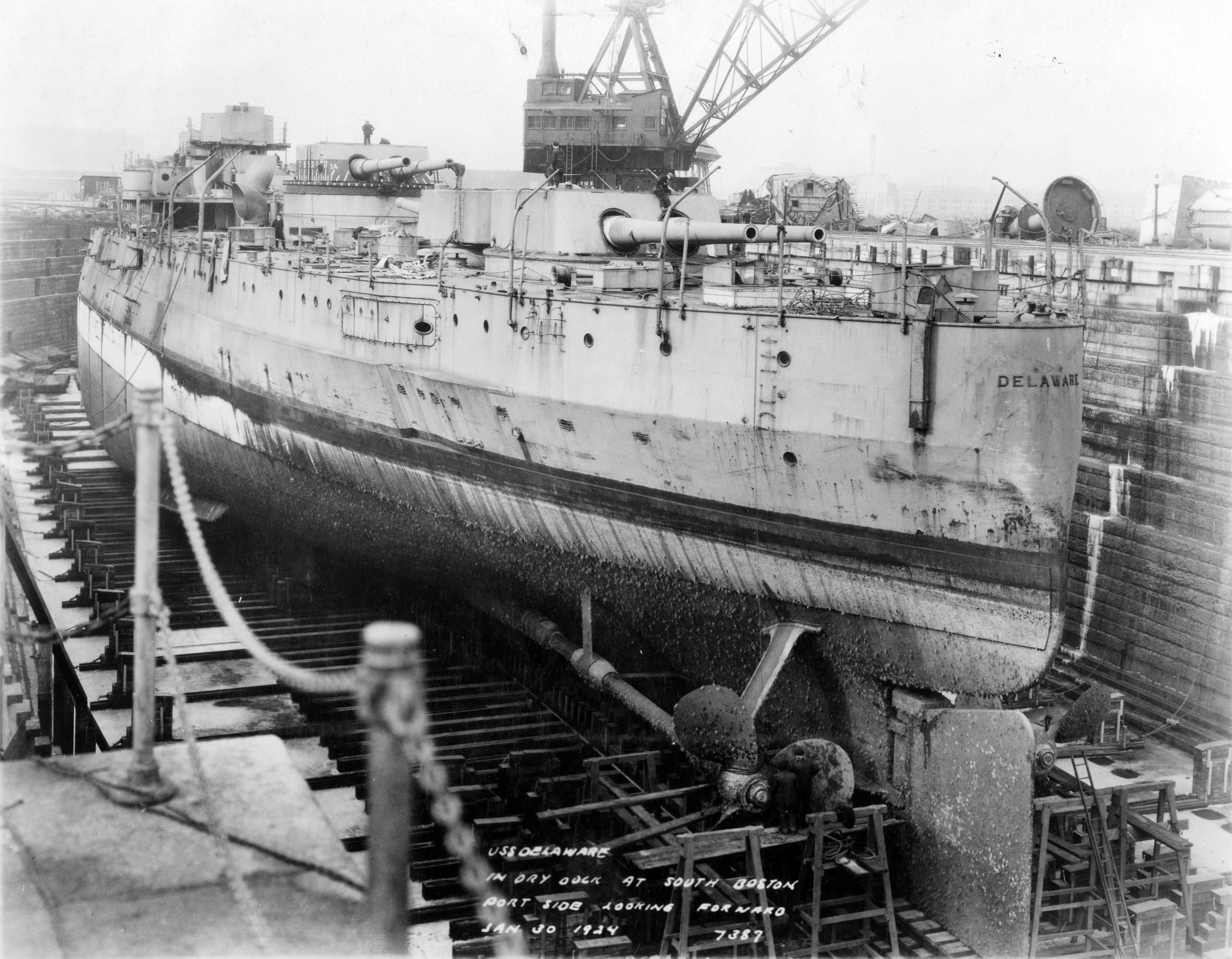 In dry dock at the South Boston Annex, Boston Navy Yard, Massachusetts, on 30 January 1924. The ship has been stripped in preparation for scrapping. Note propellers, rudder, armor belt and heavy fouling on her underwater hull. U.S. Naval History and Heritage Command Photograph.